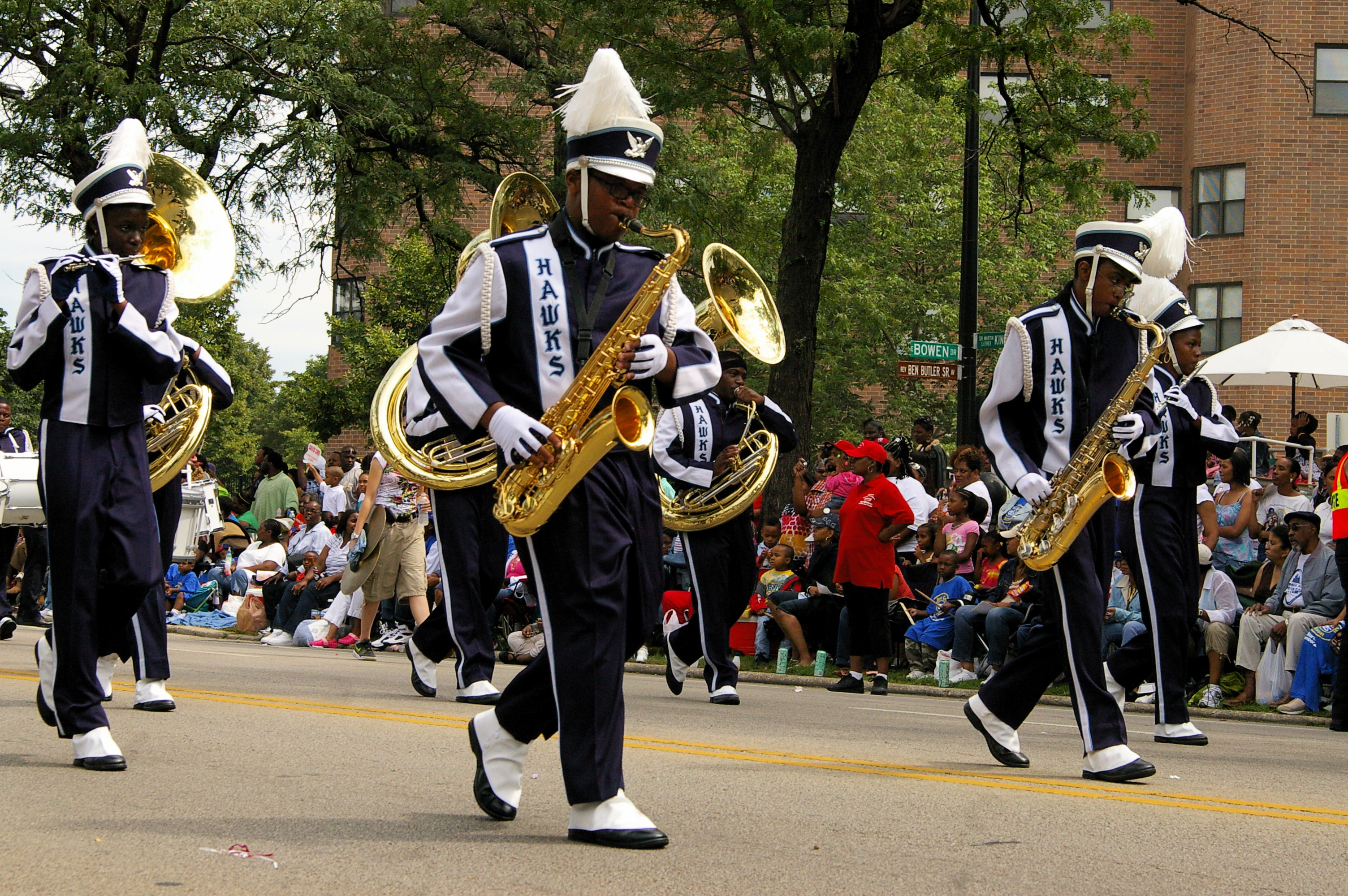 2008 Bud Billiken Parade, Chicago. Marching band from Hillcrest High School (Country Club Hills, Illinois).